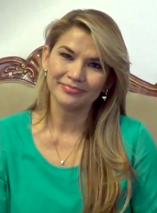 Jeanine Áñez Chávez in 2016